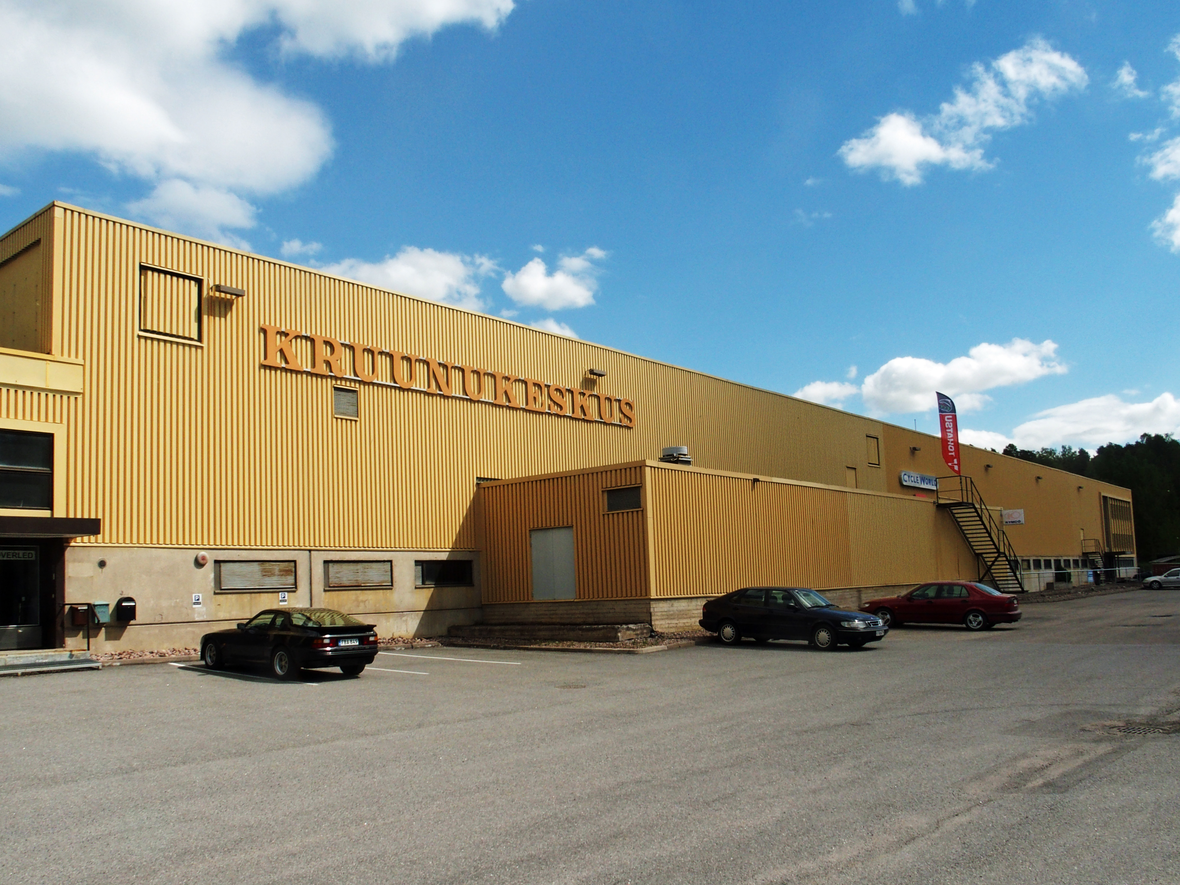 Former facilities of Kruunu-Pukine Oy, menswear manufacturer specialising in the Soviet market until 1990. Located on Purokatu, Raisio, Finland.